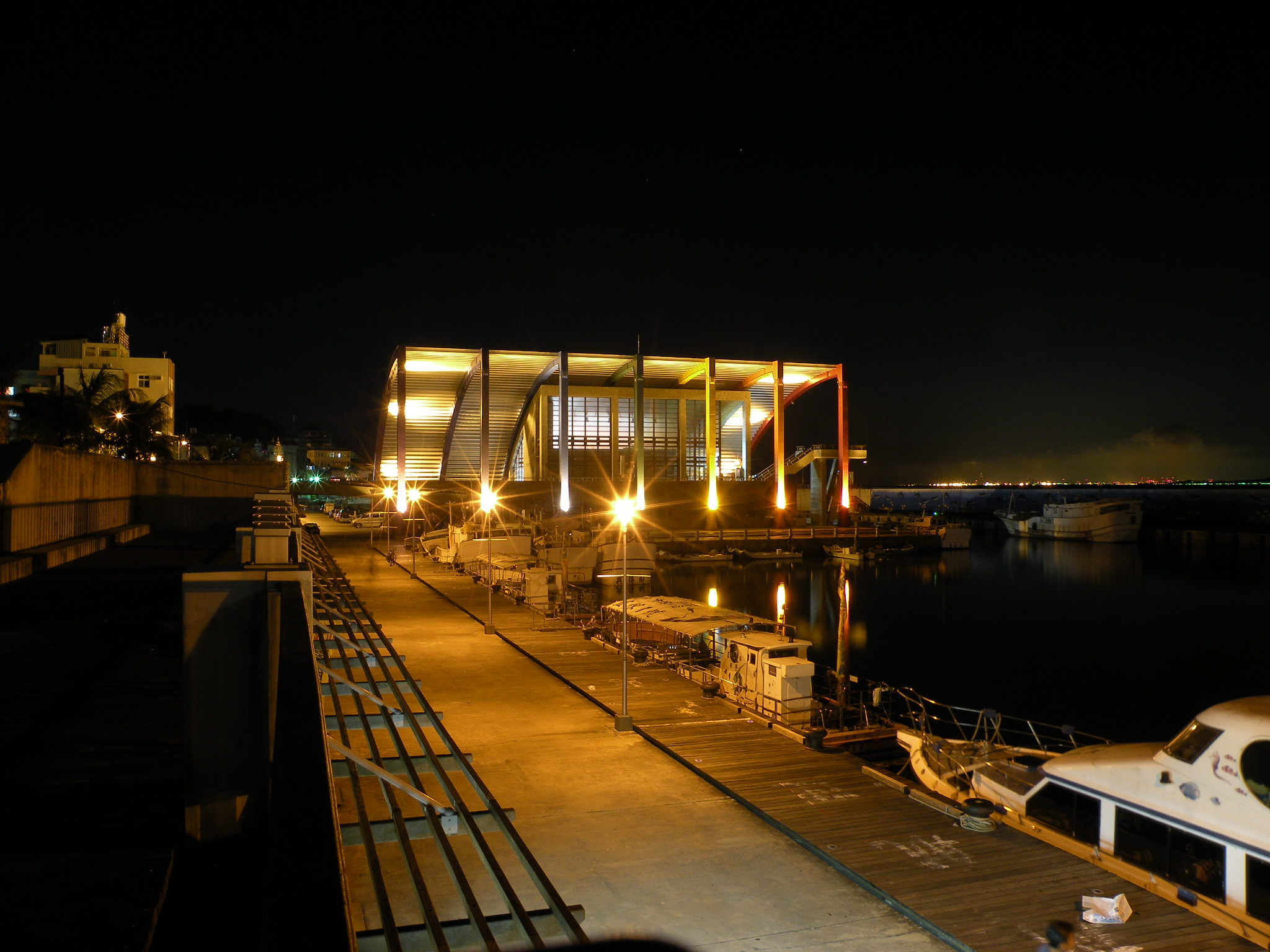 Baisha Port, Lamay Island, Liuciu, Pingtung, Taiwan. The lights on the horizon is Kaohsiung.